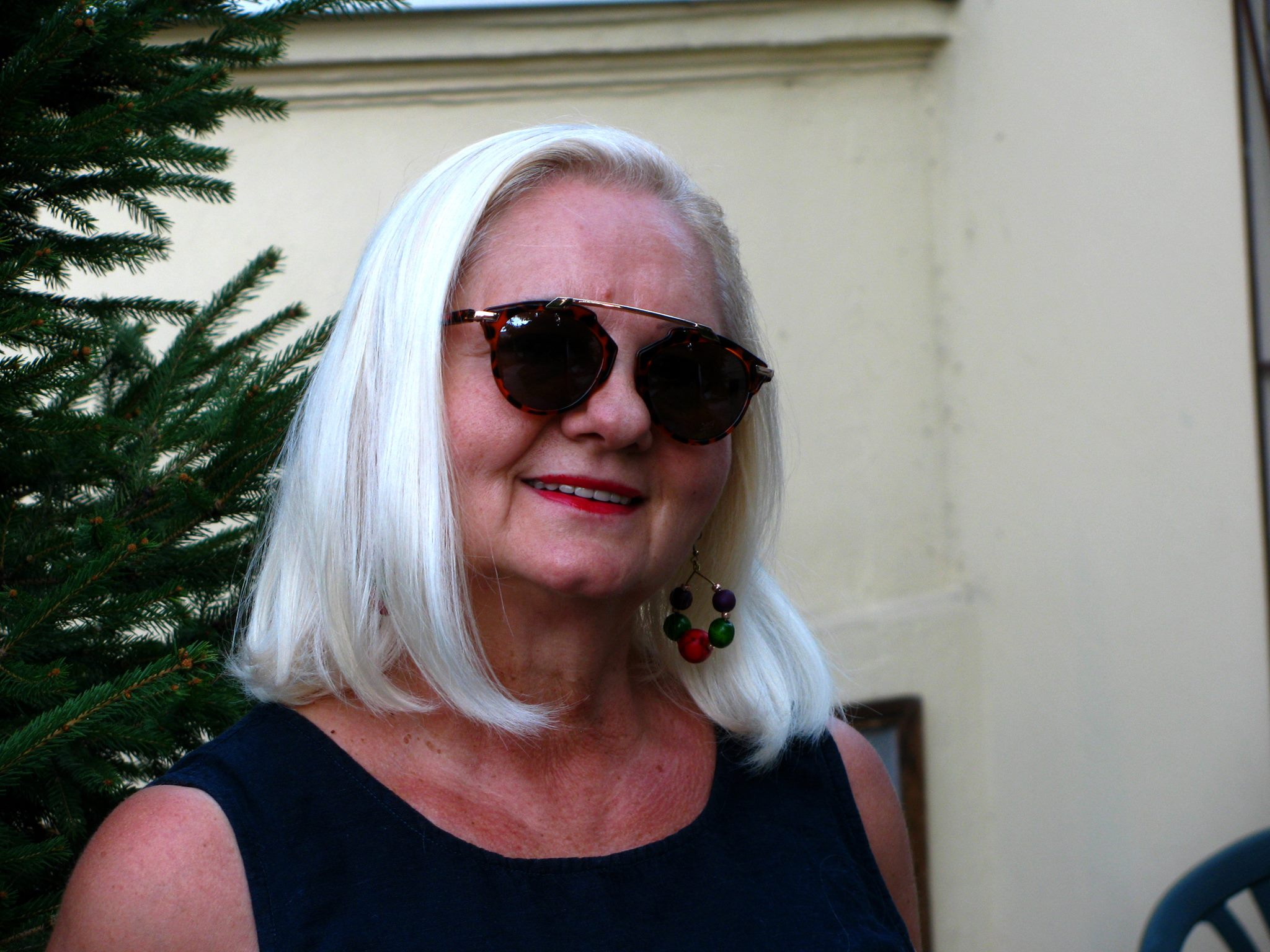 Writer